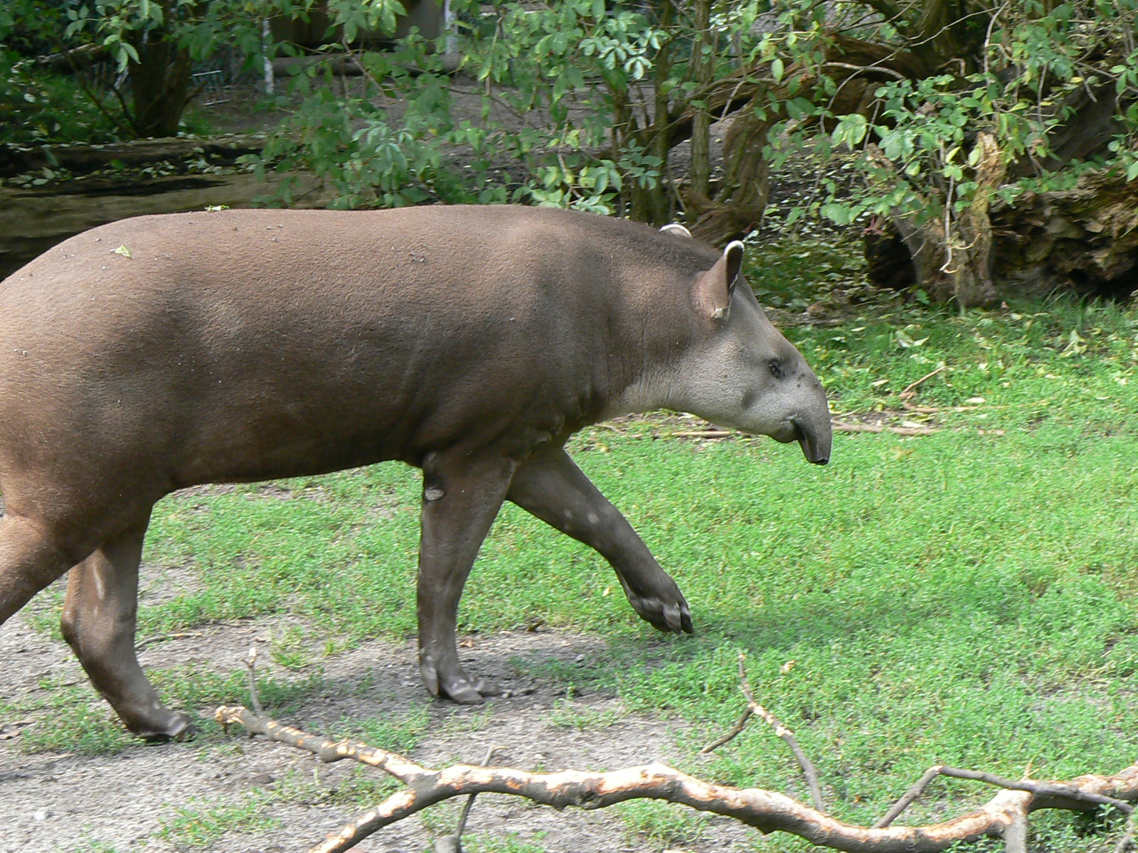 brazilian tapir / tapirus terrestris / south american tapir / flachlandtapir